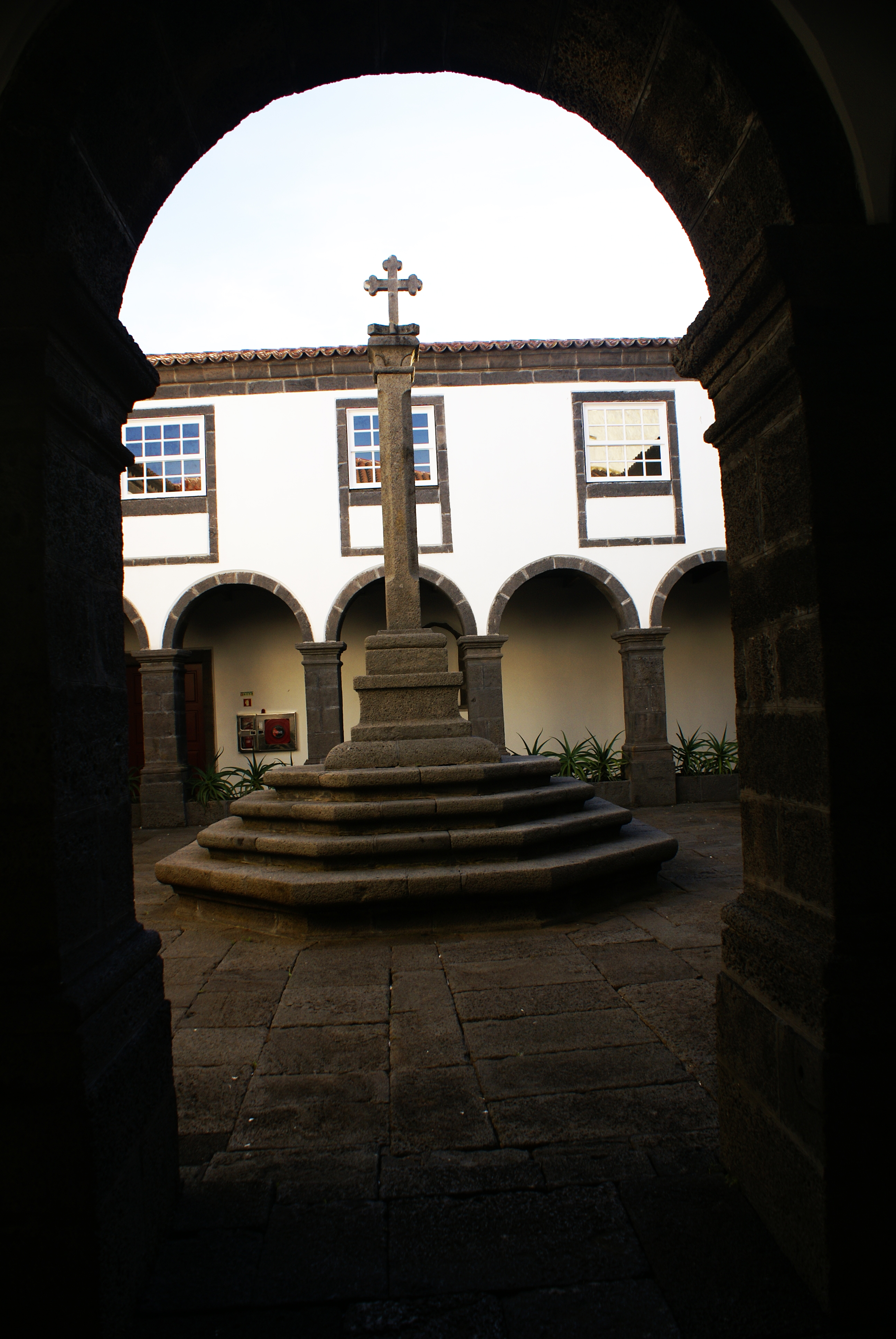 Cross within the clauster of the Convent of São Pedro de Alcântara, São Roque, Pico (Azores), Portugal